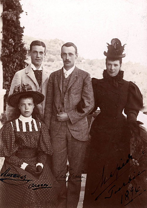 Grand Duke Michael Alexandrovich, Grand Duke George Alexandrovich, their mother Dowager Empress Maria Feodorovna (Dagmar of Denmark) and Grand Duchess Olga Alexandrovna (seated) near Borjomi in 1896